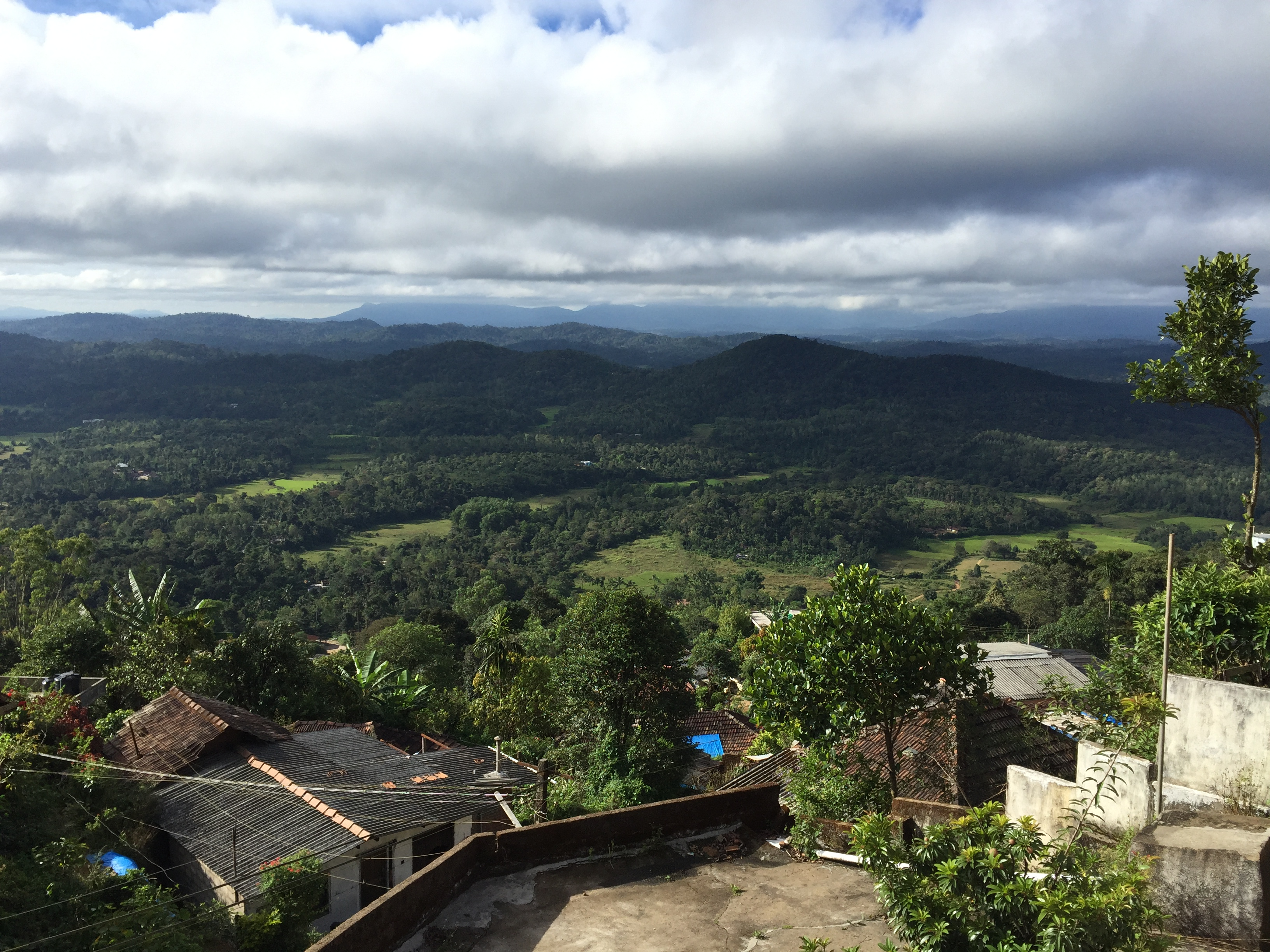 the beautiful view of mysore